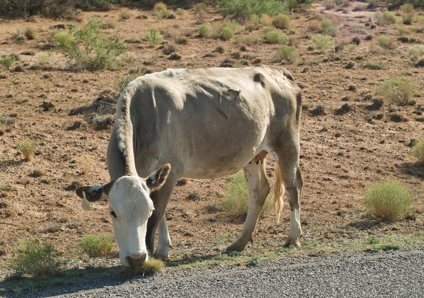 Cow grazing in the desert, at the edge of Afton Rd, Vado, NM, 9:00 AM Sept 29, 2012